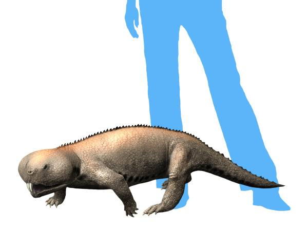 Life reconstruction of Hyperodapedon sanjuanensis